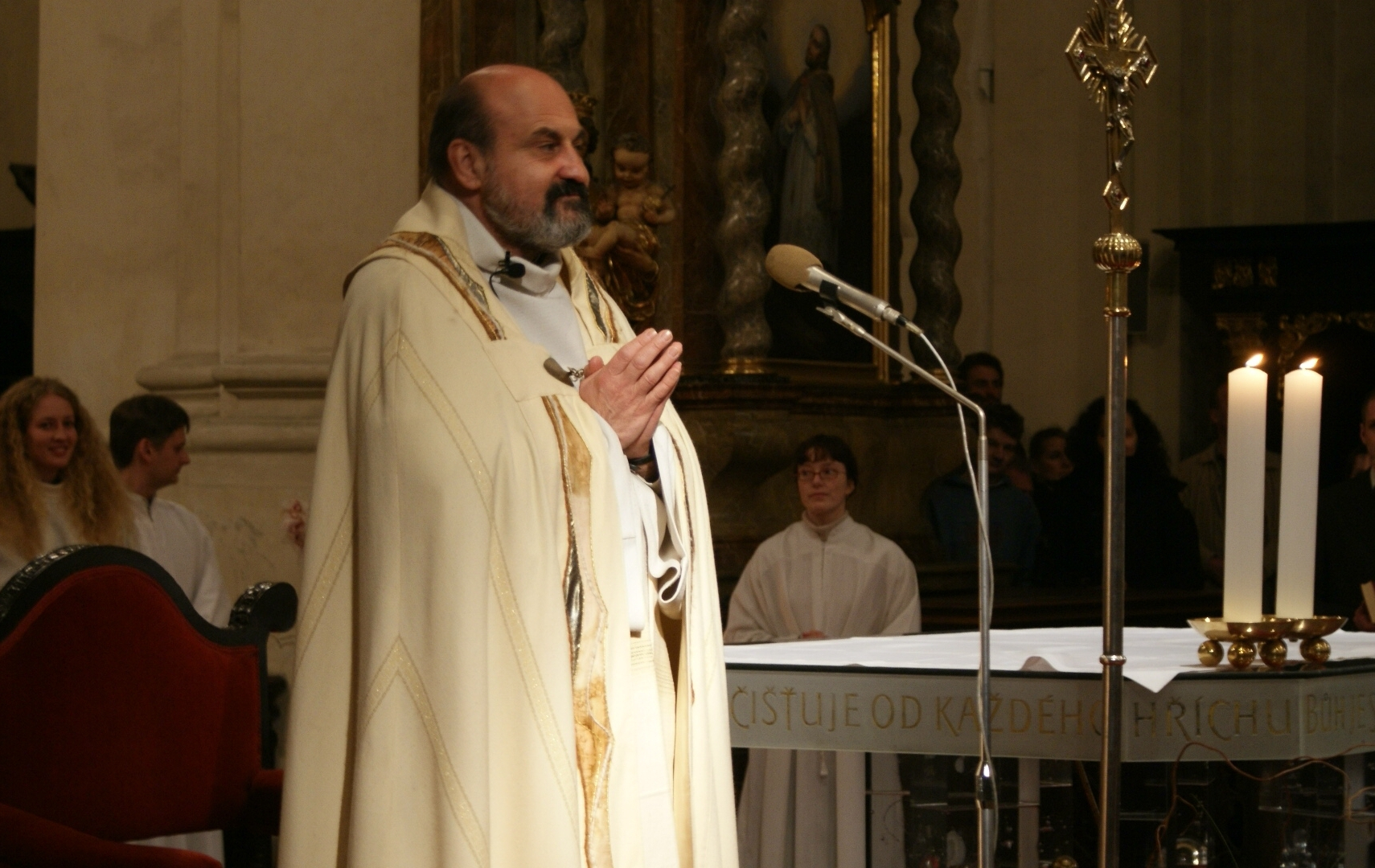 Tomas Halik